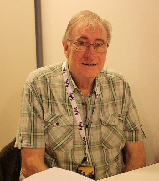 British science fiction writer Christopher Priest